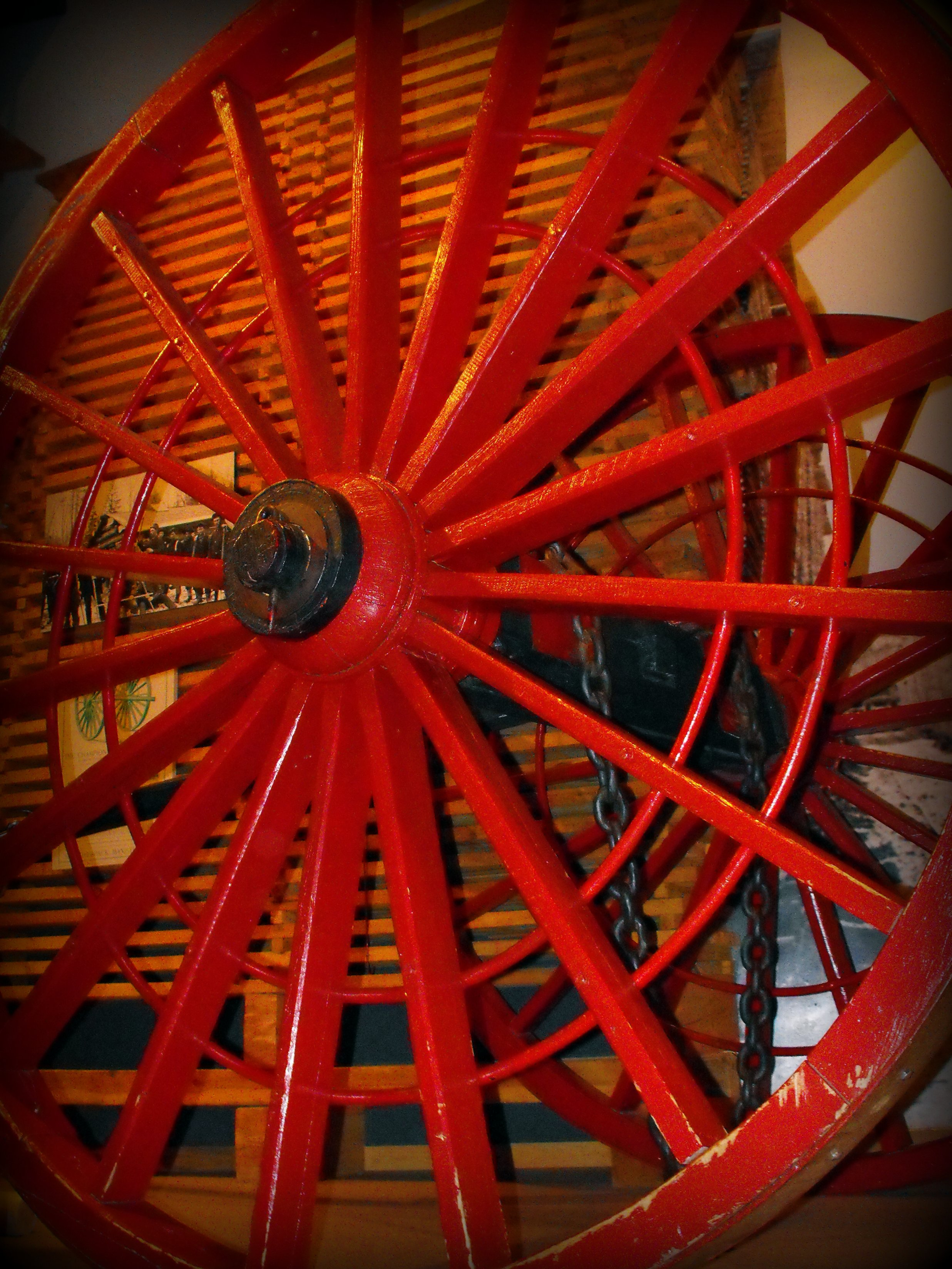 Red Michigan logging wheel